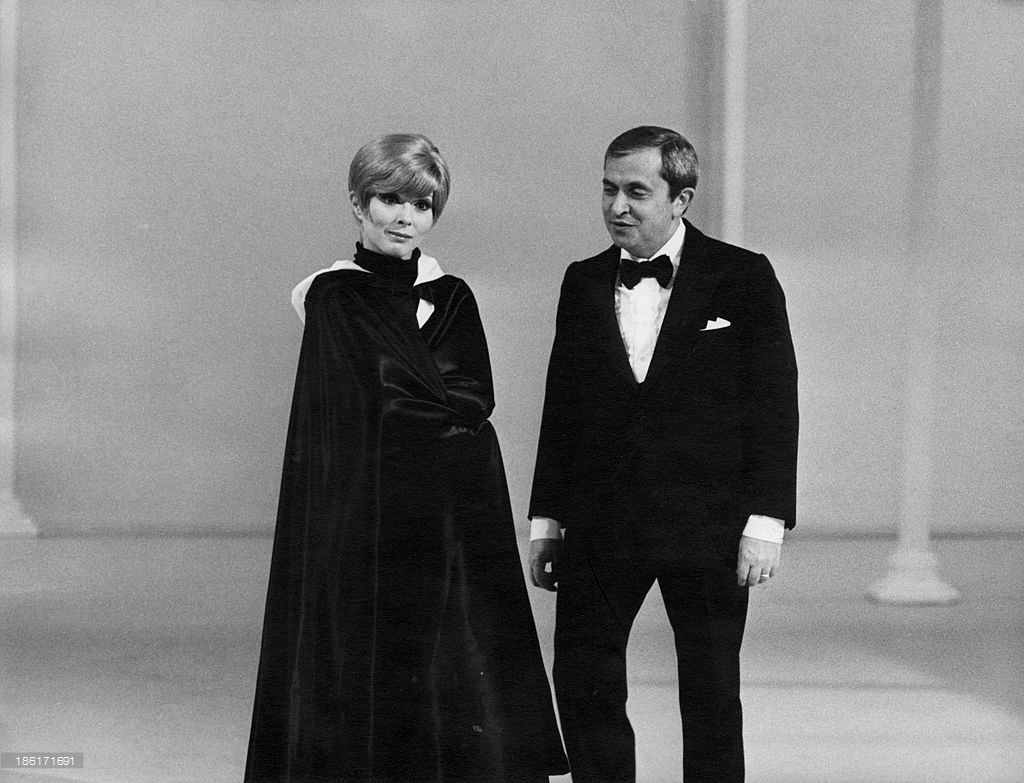 Italian actress, showgirl and dancer Delia Scala (Odette Bedogni) and Italian actor Paolo Panelli presenting the TV show Canzonissima. Italy, 1959.